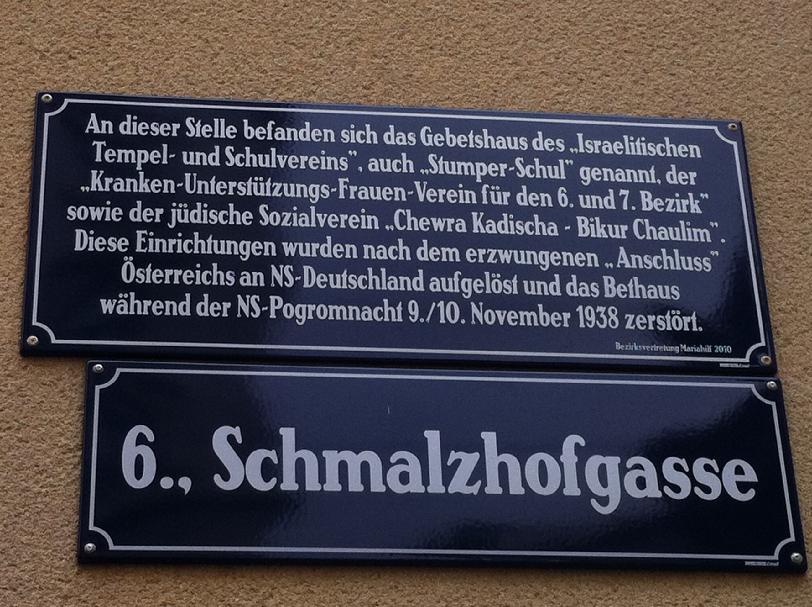 Memorial plaque for the Synagogue in Stumpergasse, Vienna